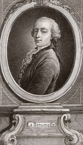 Portrait of Laurent Angliviel de La Beaumelle (1727-1773), French writer